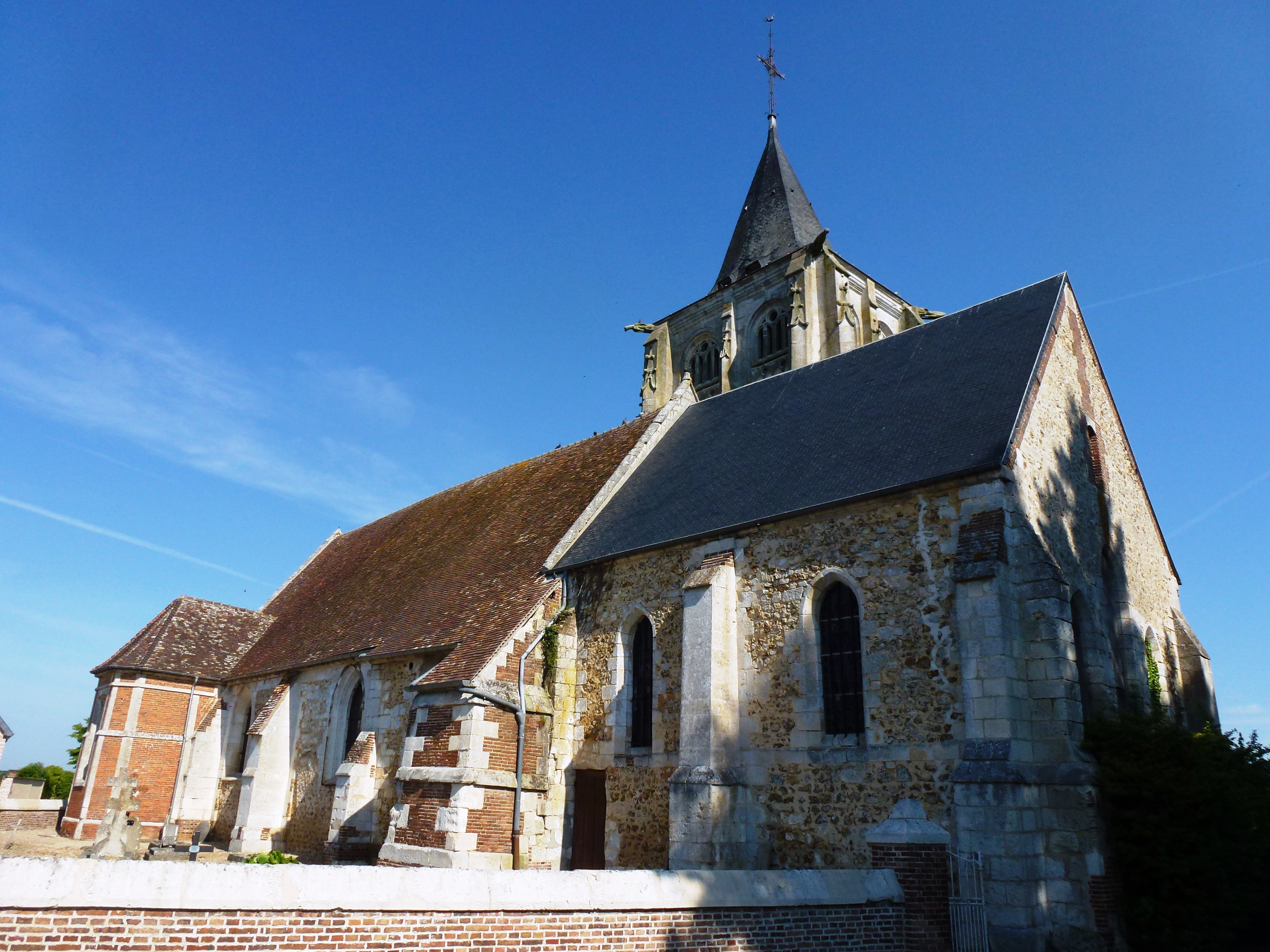 Barc (Eure, Fr) église Saint-Crépin-Saint-Crépinien